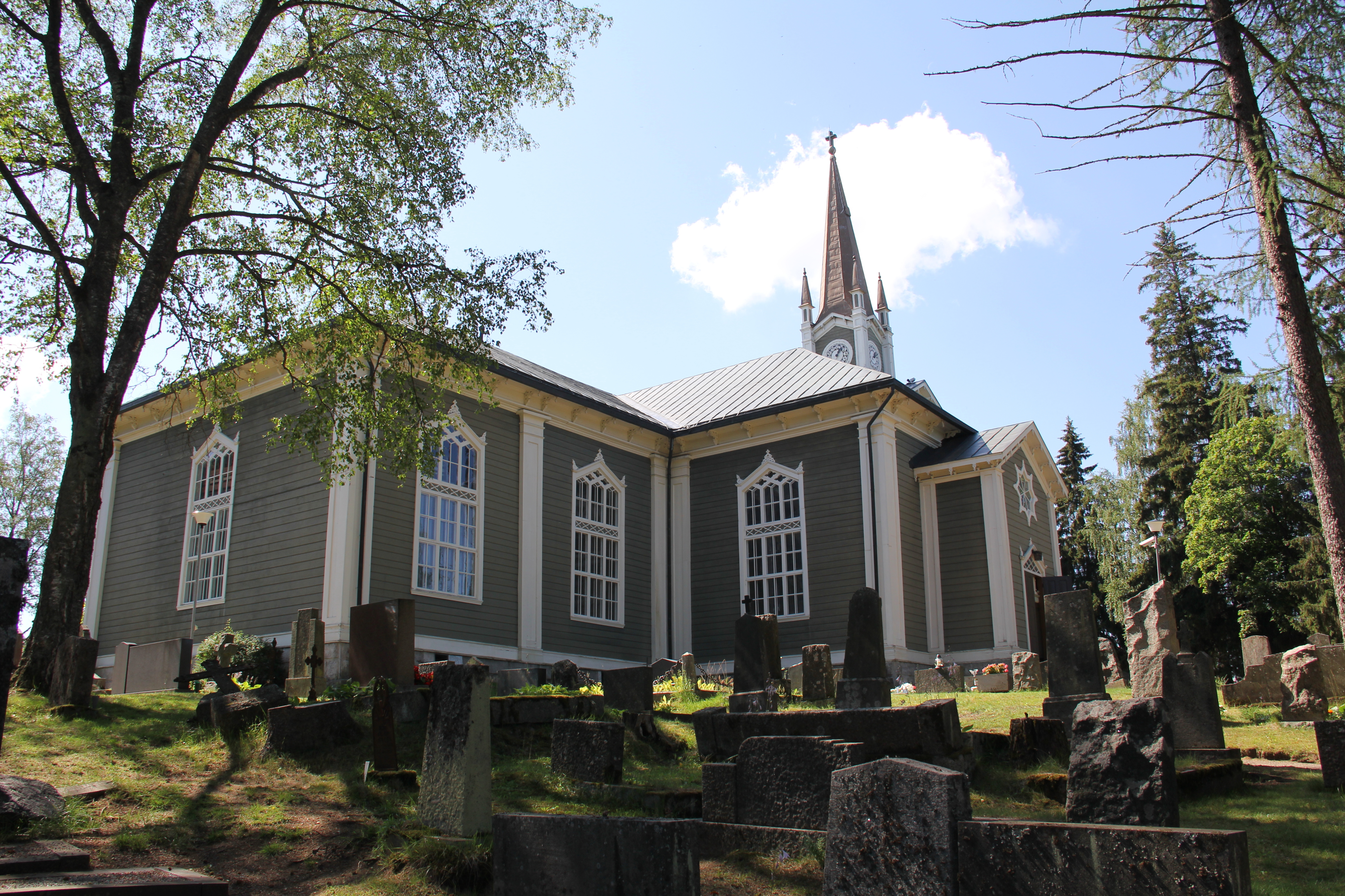 Urjala church, Urjala, Finland. Originally designed by Martti Tolpo, modifications in 1869 designed by architect Carl Albert Edelfelt. Completed in 1806. - Seen from northeast.